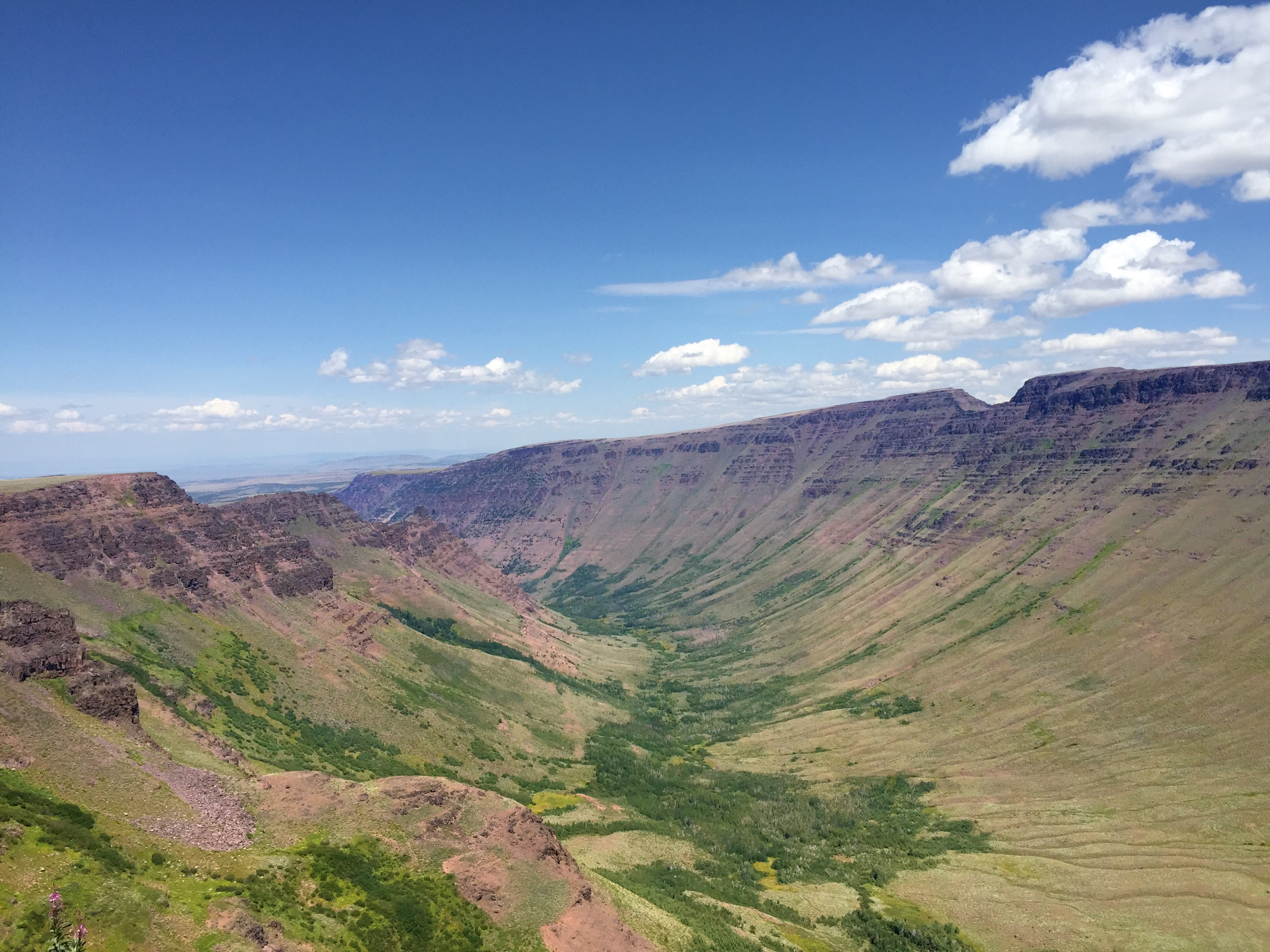 View of the Kiger Gorge, a glacial valley on the north flank of Steens Mountain.